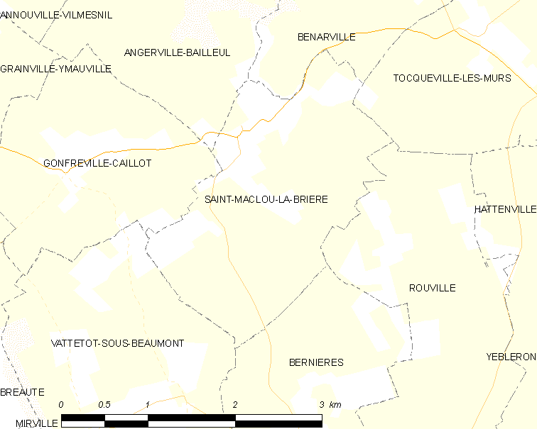 Map of French municipality Saint-Maclou-la-Brière